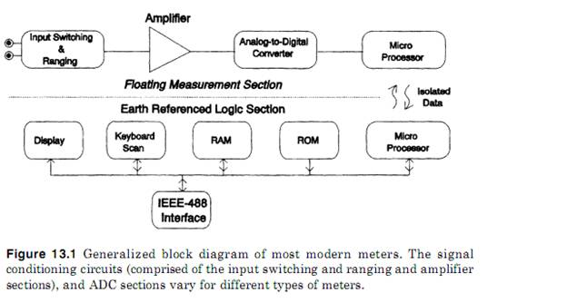 Generalized block diagram of most modern meters